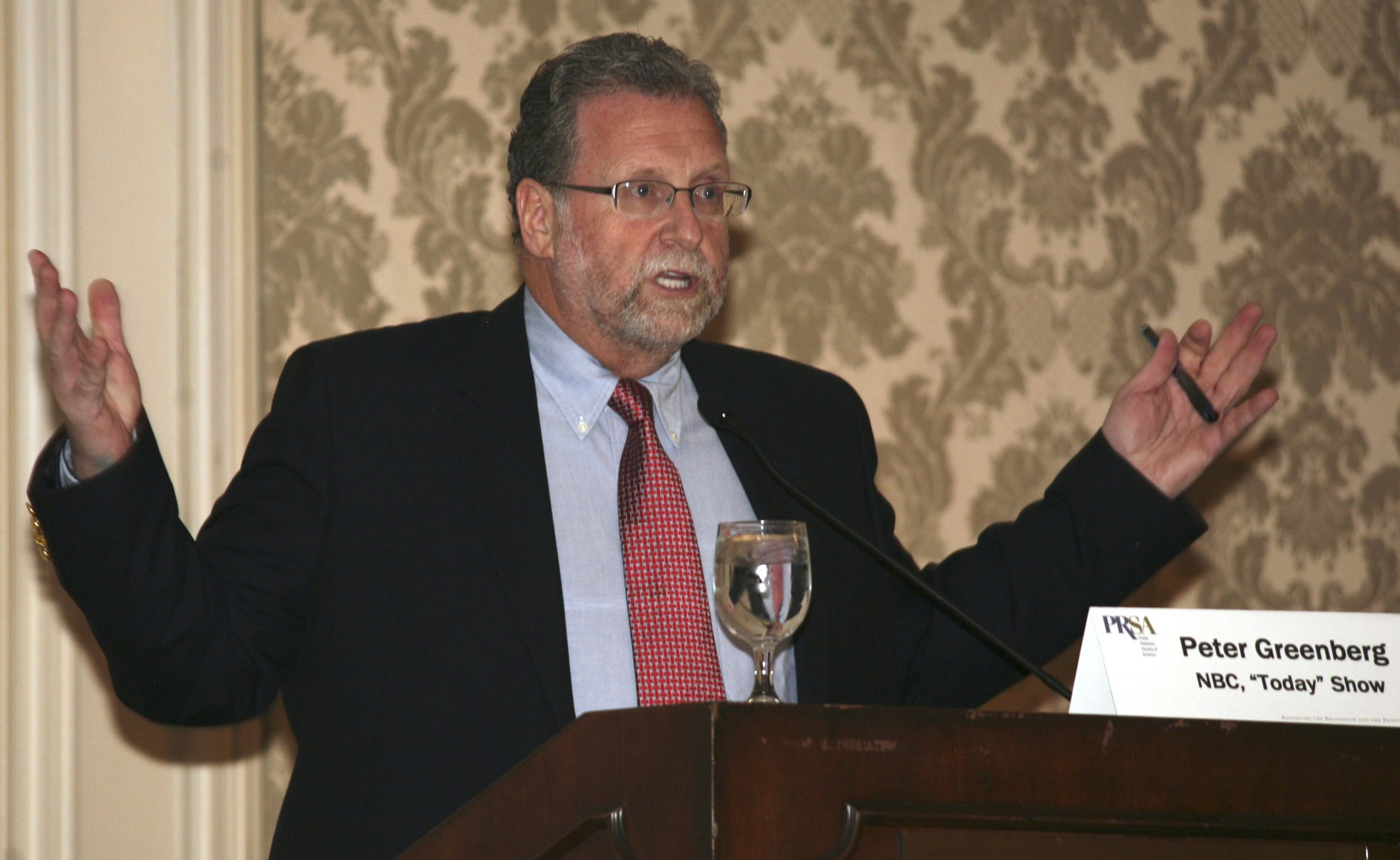 Peter Greenberg serving as keynote speaker at the PRSA Travel & Tourism Conf, in Kansas City, MO in May 2009.